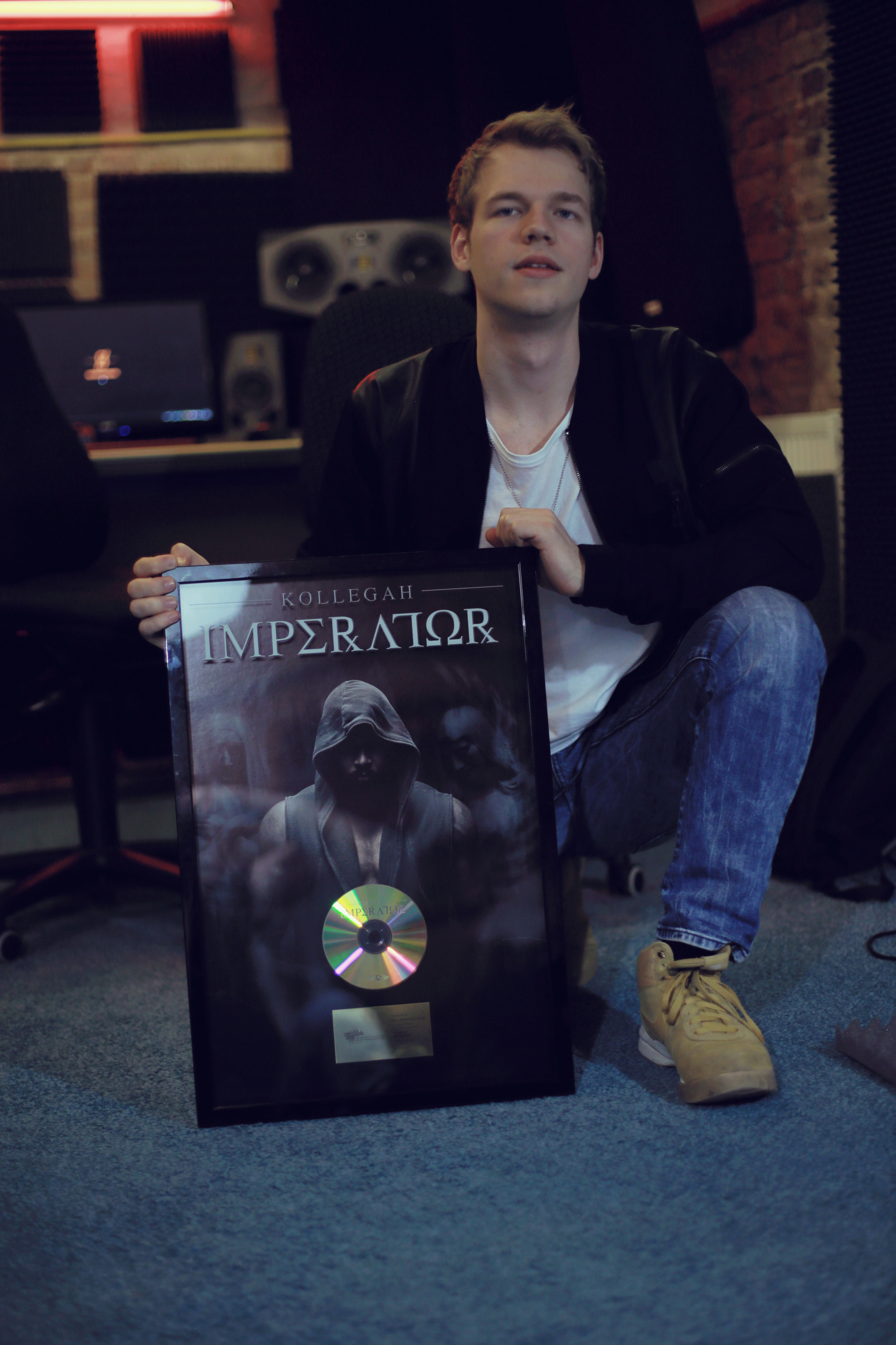 Music producer Reflectionz with the gold certification for his contribution on Kollegah's album Imperator